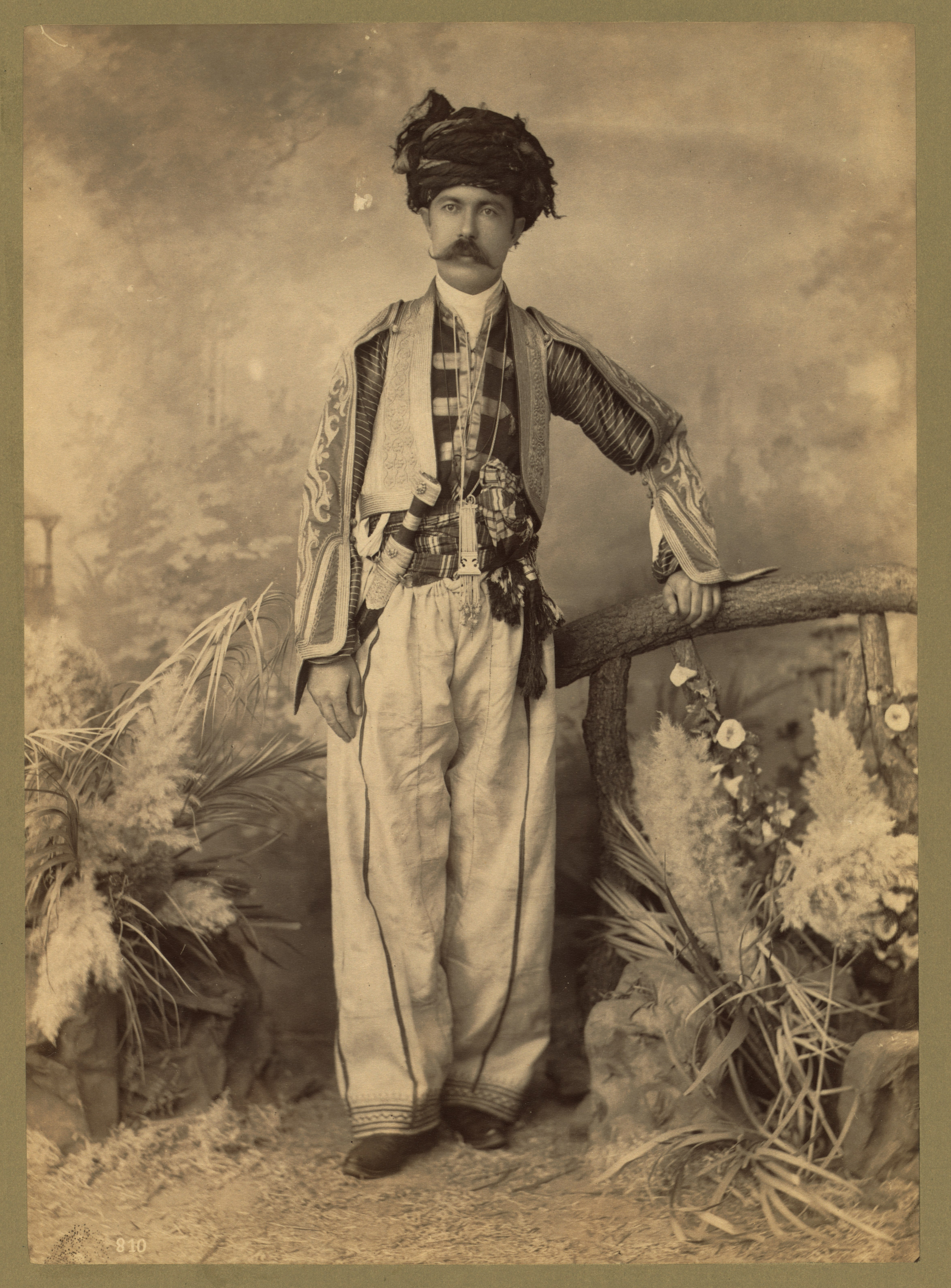 Title: Kurdish chief, full-length portrait, standing, facing front Abstract/medium: 1 photographic print.